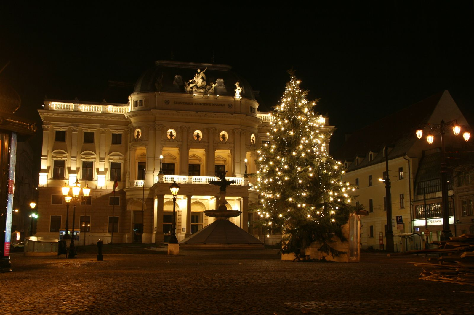 Built in 1886 and situated on the main square in Bratslava, which was the site of the New Years celebration about 24 hours before we arrived. The beer tents and tables were still set up...and the smell of beer was still everywhere.